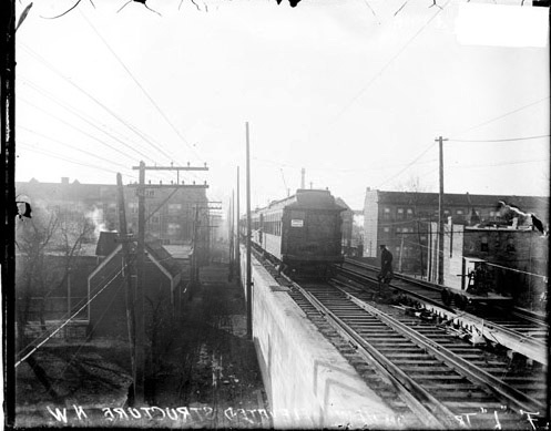 View of the new elevated tracks of the Northwestern Elevated Railroad at Argyle Street Station in the Uptown, Chicago, Illinois.